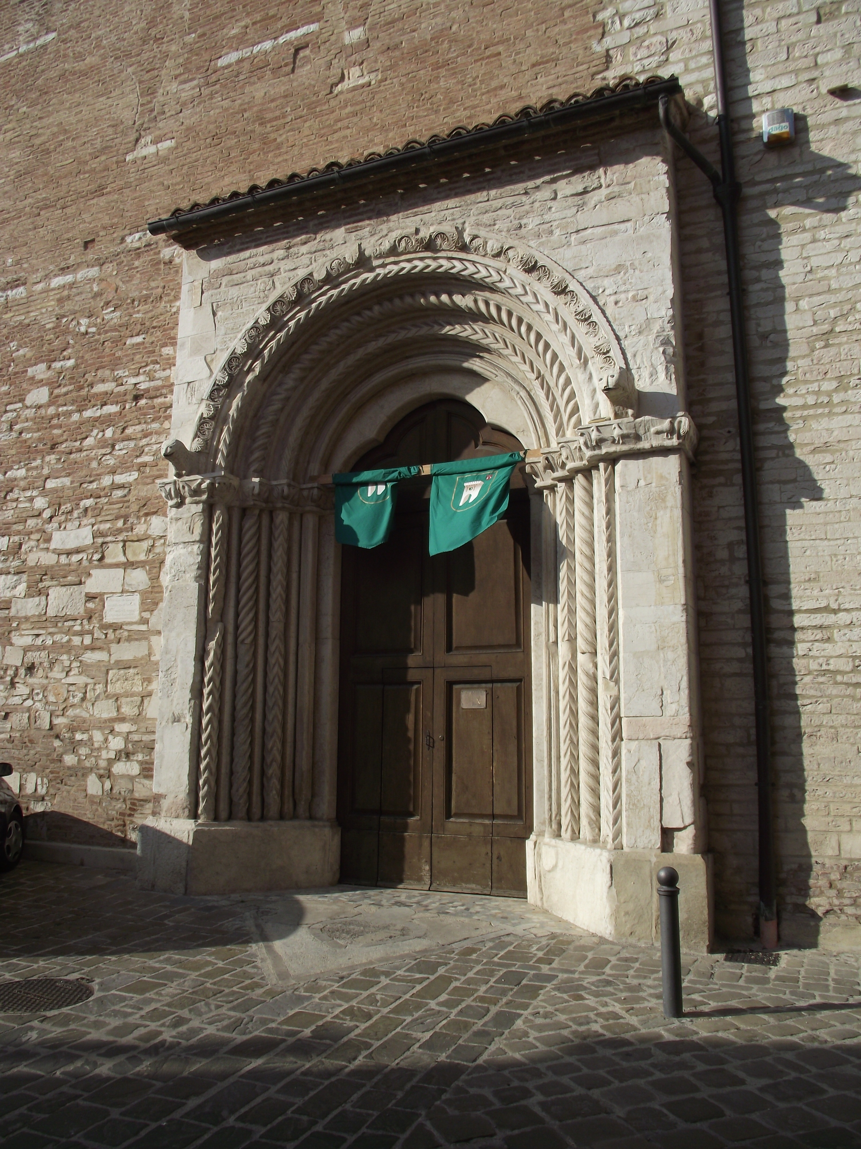 St. Augustine's Church, Fabriano -Italy